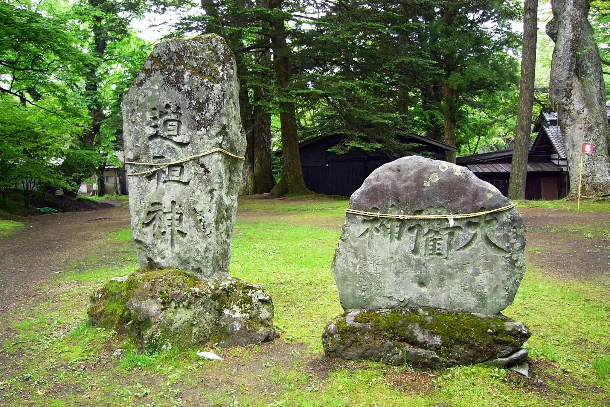 Dosojin at Karuizawa, Nagano prefecture, Japan